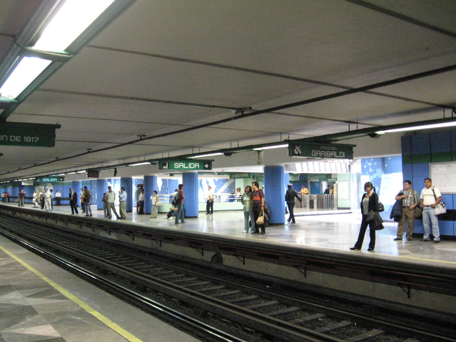 View of northbound platform of Metro station Doctores on Line 8 of the Mexico City Metro system